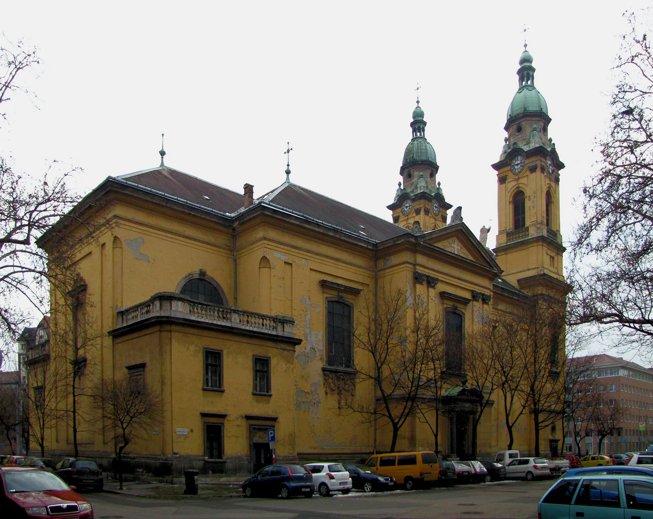 Saint Joseph Church, Budapest District VIII